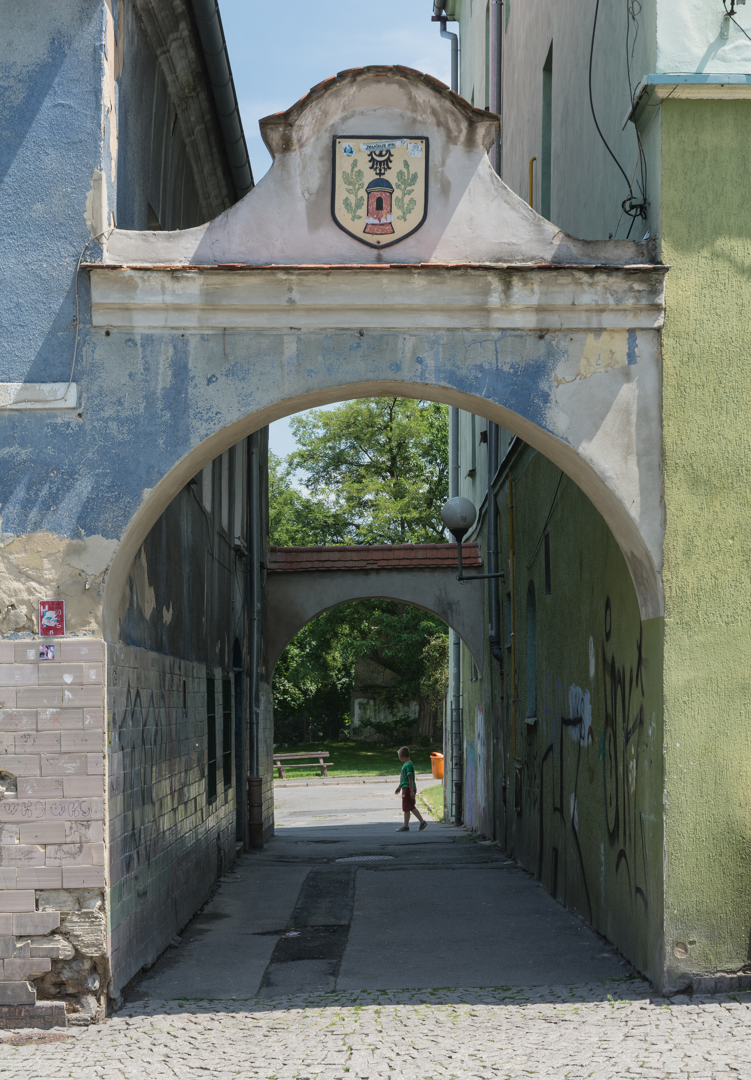 Herbowa Street in Niemcza